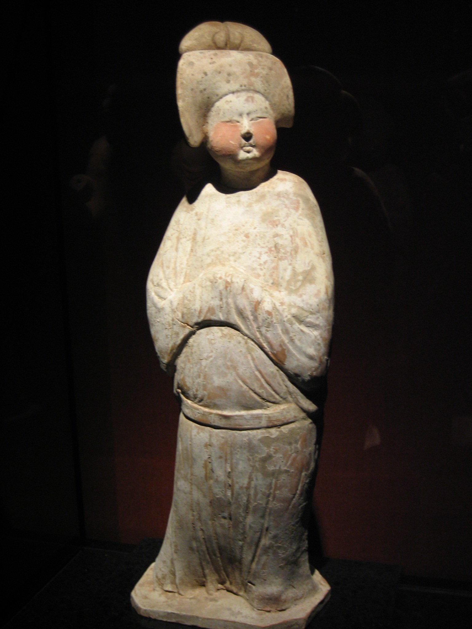 Colored pottery lady, Tang Dynasty, by Mountain at Shanghai Museum